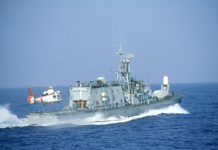 IDF navy, Israel Defense Forces